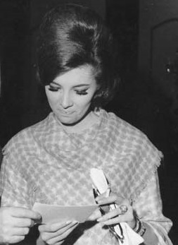 Beverly Adams- actriz canadiense